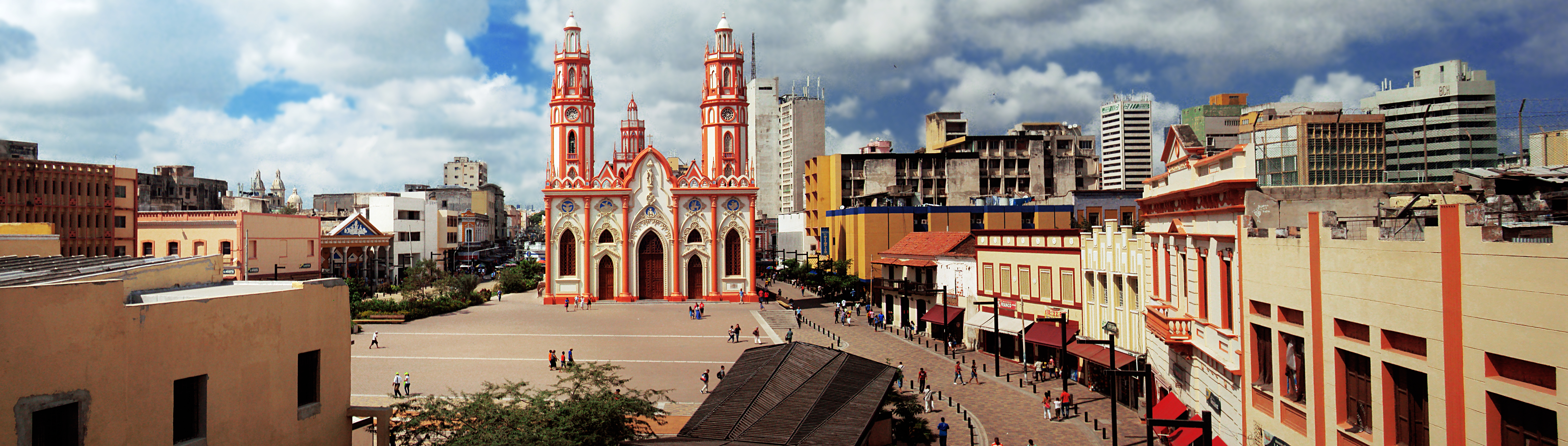 Panoramic of Plaza San Nicolás